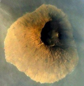 NASA image of Fogo Island, Cape Verde